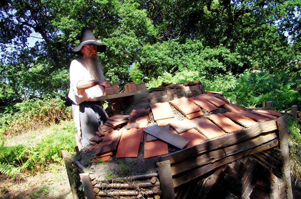 Roger and the kiln